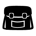 An icon from the set Education Web Icons